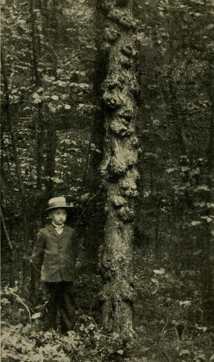 Pinus sylvestris in the Arboretum Wirty (Poland) in 1911. In the source referred to as German Knollenkiefer (Pinus sylvestris gibberosa ?).